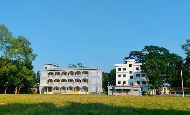 Photograph of Palashbari S.M. Pilot High School